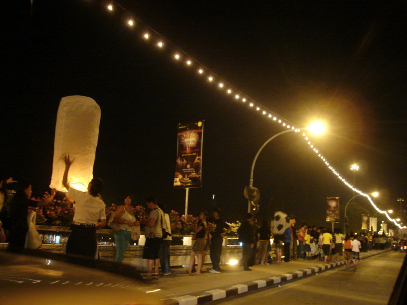 Khom Loi (Thai: โคมลอย), flying lantern originated from Northern Thailand. Photo from Chiang Mai, Thailand.